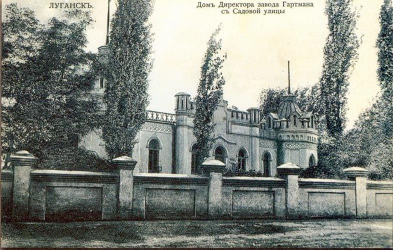 House plant manager Hartmann.